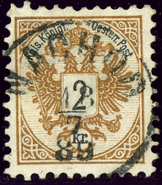 Austrian KK 30 heller stamp, cancelled NACHOD in 1889 (Bohemia)